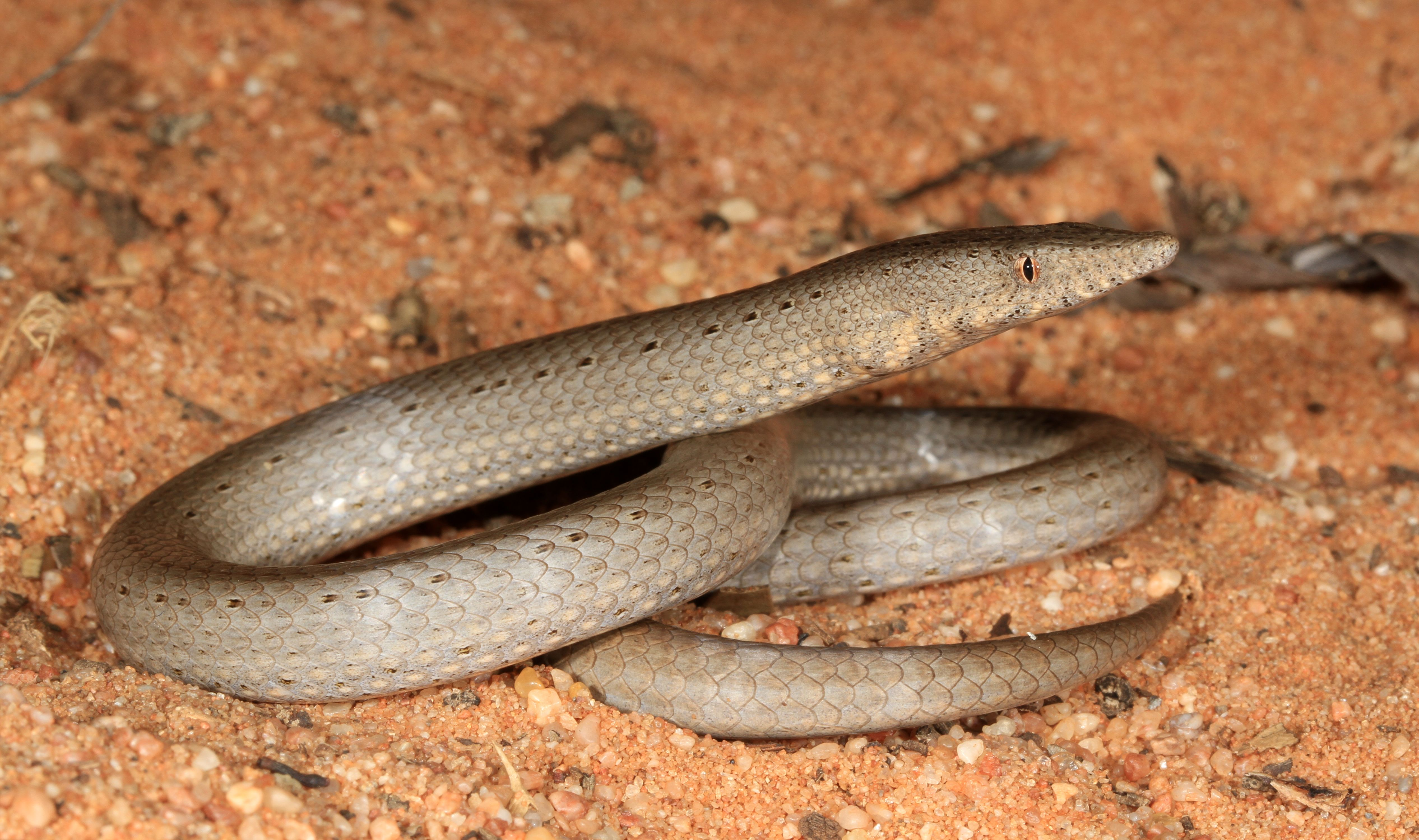 Burton's legless lizard on some sand in Murray Mallee, South Australia.